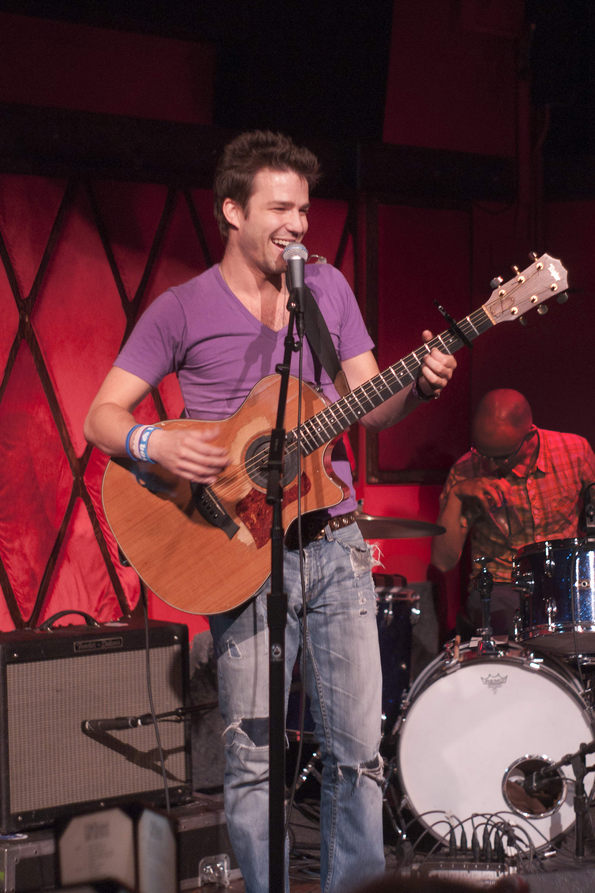 Todd Carey playing at the Rockwood Music Hall in NYC on July 14th, 2011.